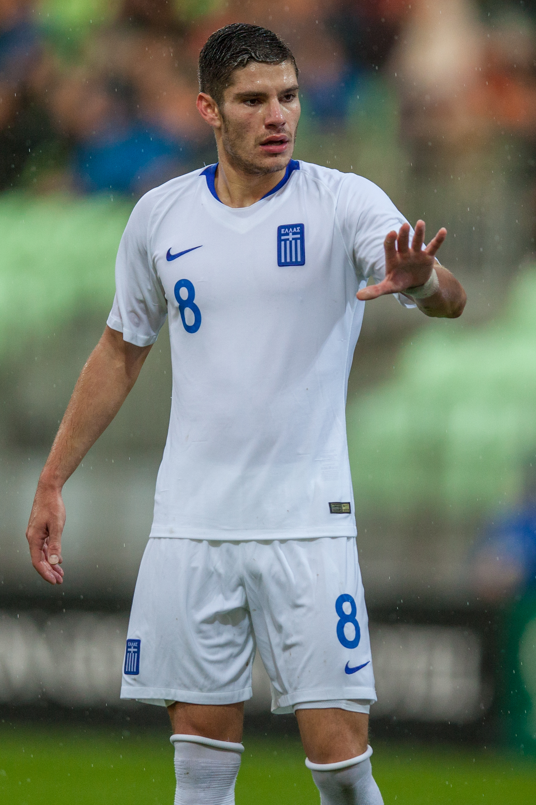 Konstantinos Balogiannis in an internatinoal association football match of European Under-21 Championship Qualifying Round between the Czech Republic and Greece, Městský stadion Karviná, Karviná District, Moravian-Silesian Region, Czechia Personality rights warningAlthough this work is freely licensed or in the public domain, the person(s) shown may have rights that legally restrict certain re-uses unless those depicted consent to such uses. In these cases, a model release or other evidence of consent could protect you from infringement claims.